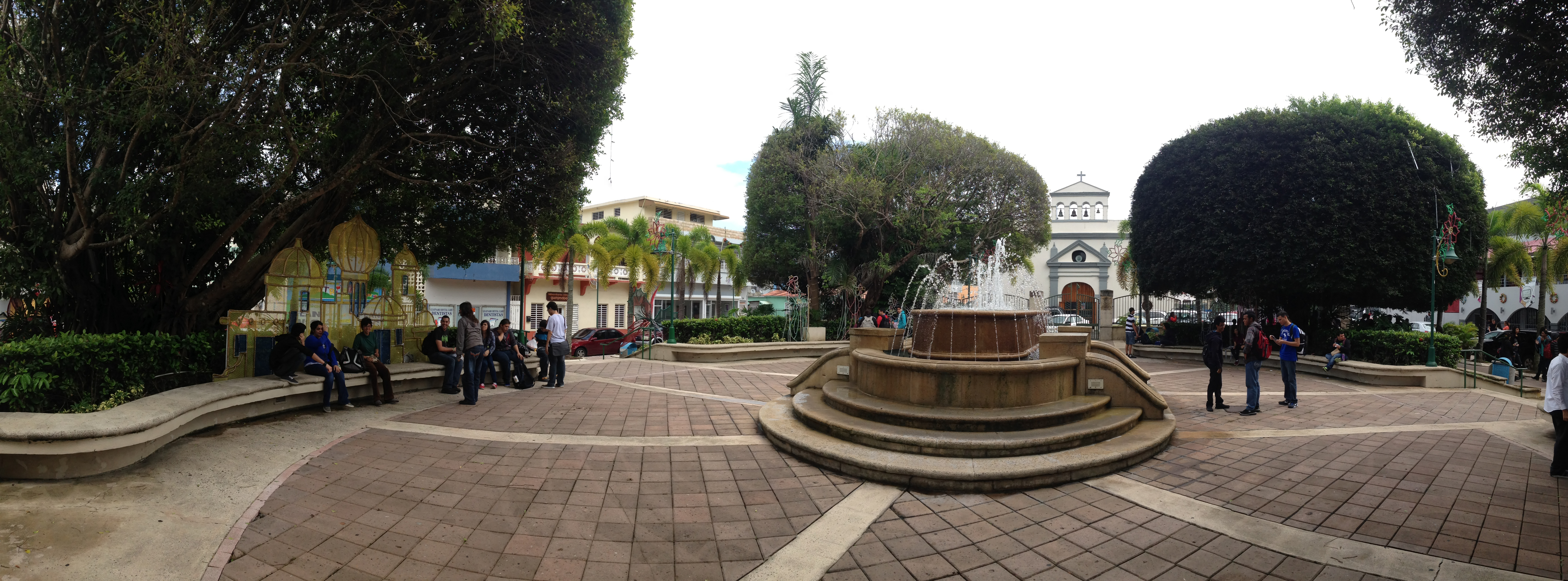 Panorama of the Plaza de Recreo (central historic square) of Guaynabo, Puerto Rico. In the photo the Iglesia Parroquial de San Pedro Mártir, built between 1775 and 1820. The church was placed on the National Register of Historic Places of the United States in 1976.